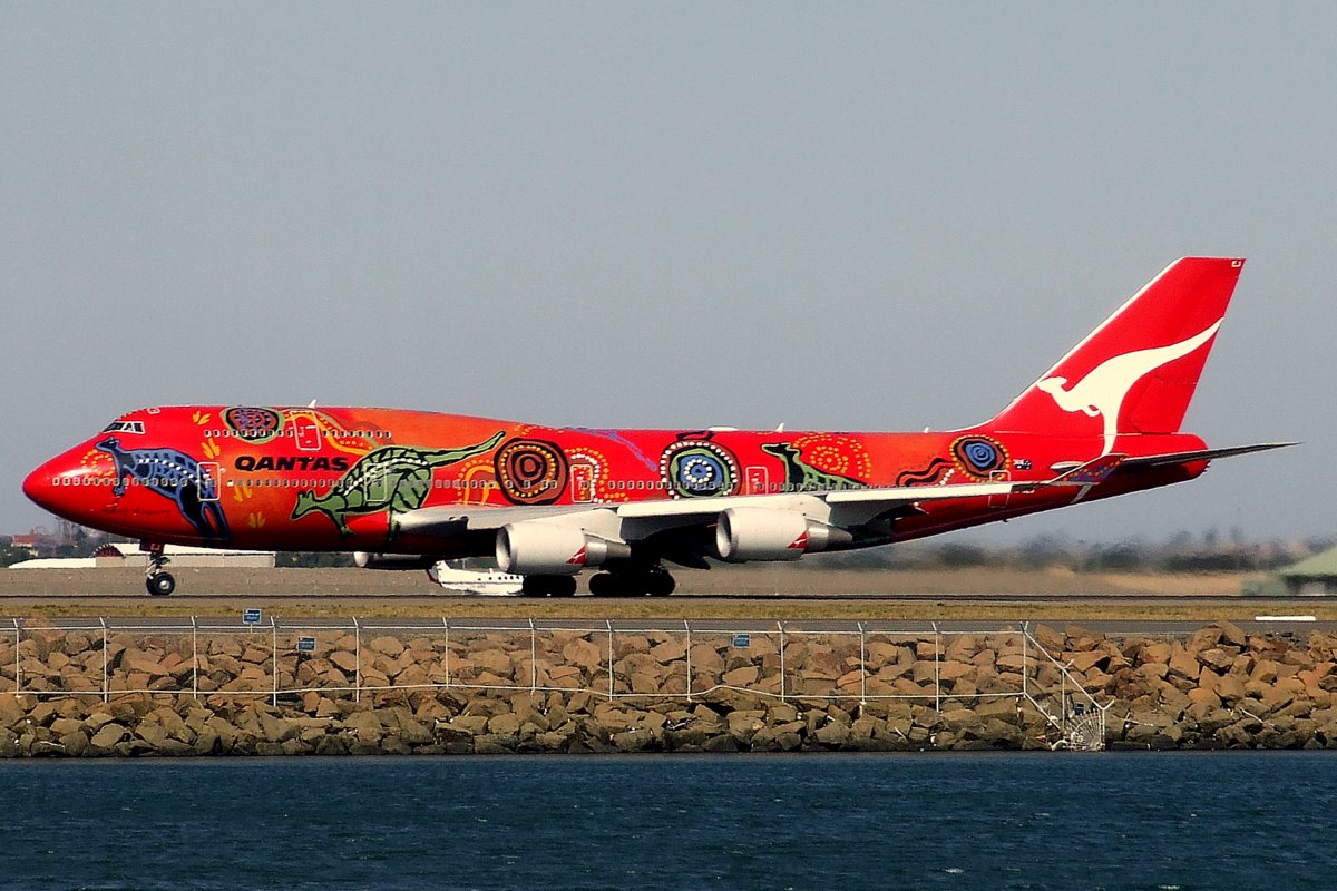 Qantas Boeing 747-400ER VH-OEJ in the special Wunala Dreaming colour scheme, taking off from Runway 34L at Sydney Airport in Australia.